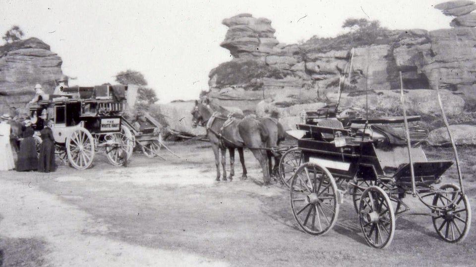 Brimham Rocks visitors, a 19th century photograph.